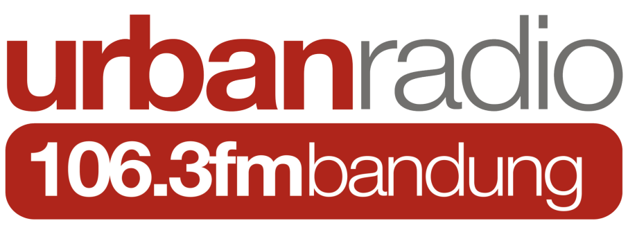 Logo Urban Radio